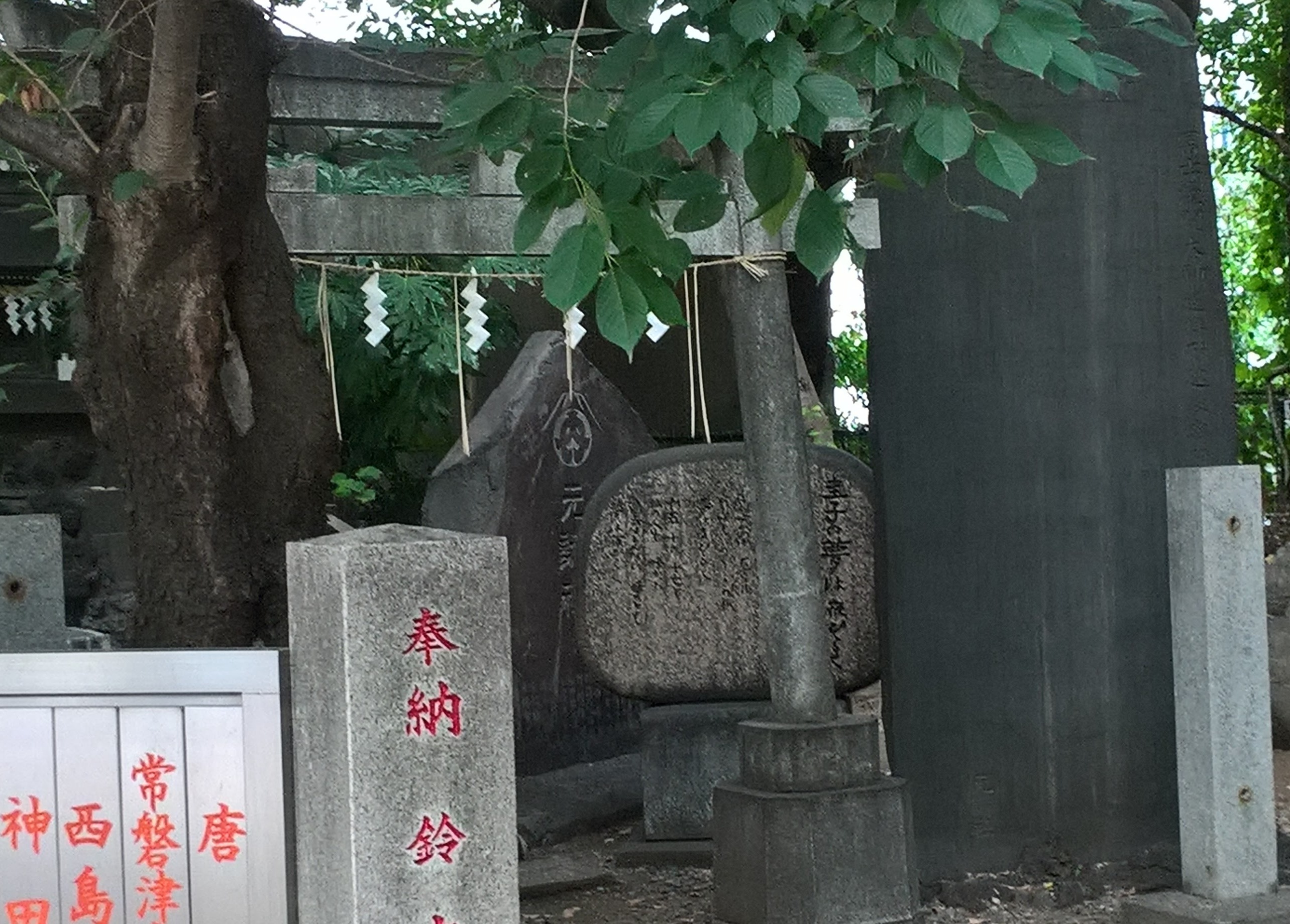 Monument of Keiko no Yume wa Yoru Hiraku in Hanazono shrine